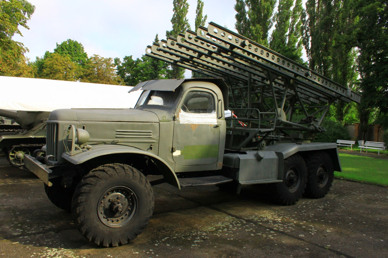 Katjuša expose in german russian museum in berlin